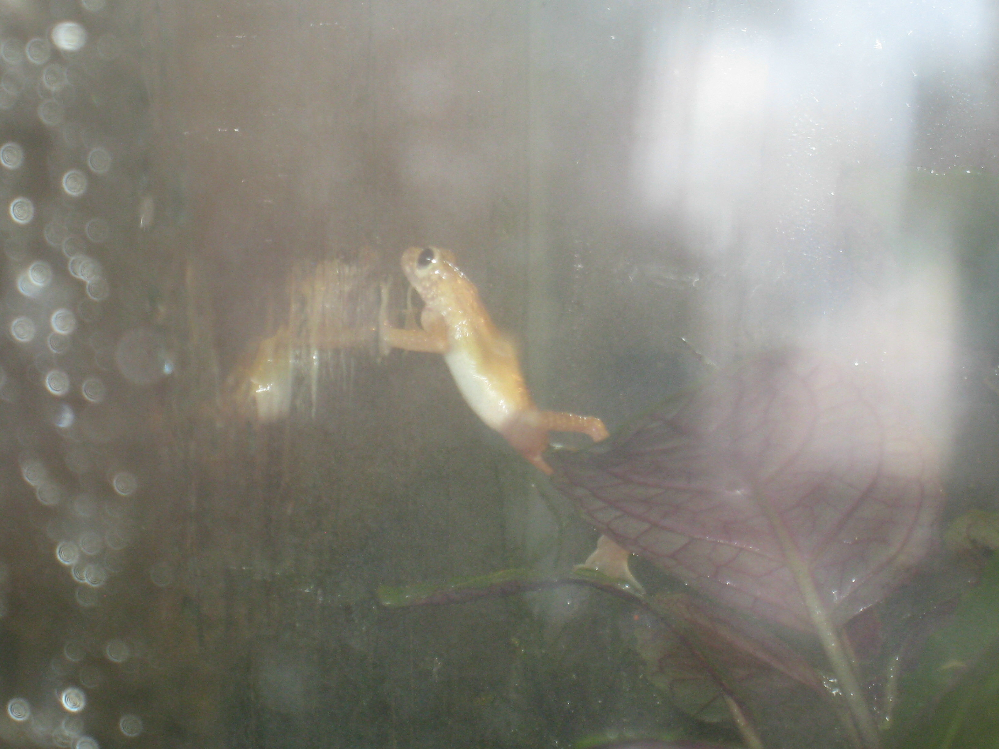 Photo of the Critically Endangered Kihansi Spray Toad (Nectophrynoides asperginis), taken at the Toledo Zoo.